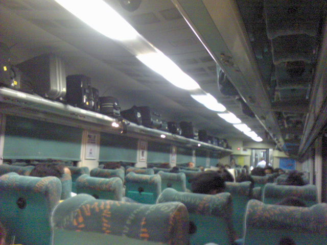 Interior view of New Delhi bound Kalka Shatabdi Express. It will take exactly 2 hours and 25 minutes to cover the distance of 266 km from Chandigarh. Nice train indeed !